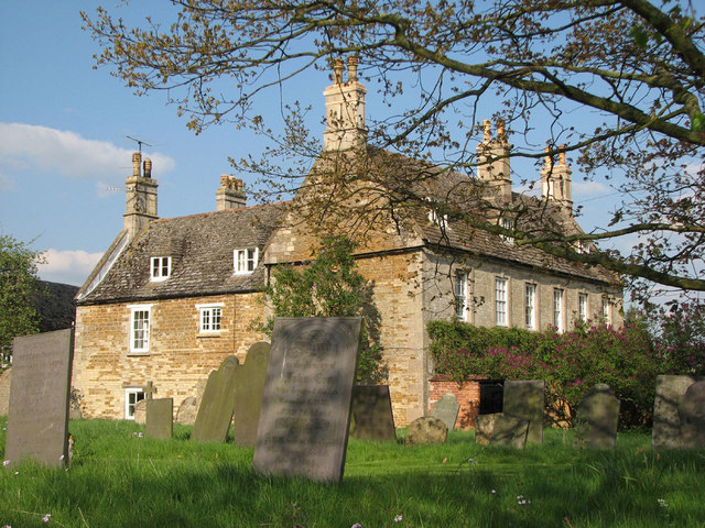 Teigh Old Rectory A fine six-bay 18th-century house, paid for, according to Pevsner, by the Earl of Harborough, who was responsible for rebuilding the church. The house was used as Mr Collins' rectory in the 1995 BBC "Pride and Prejudice".